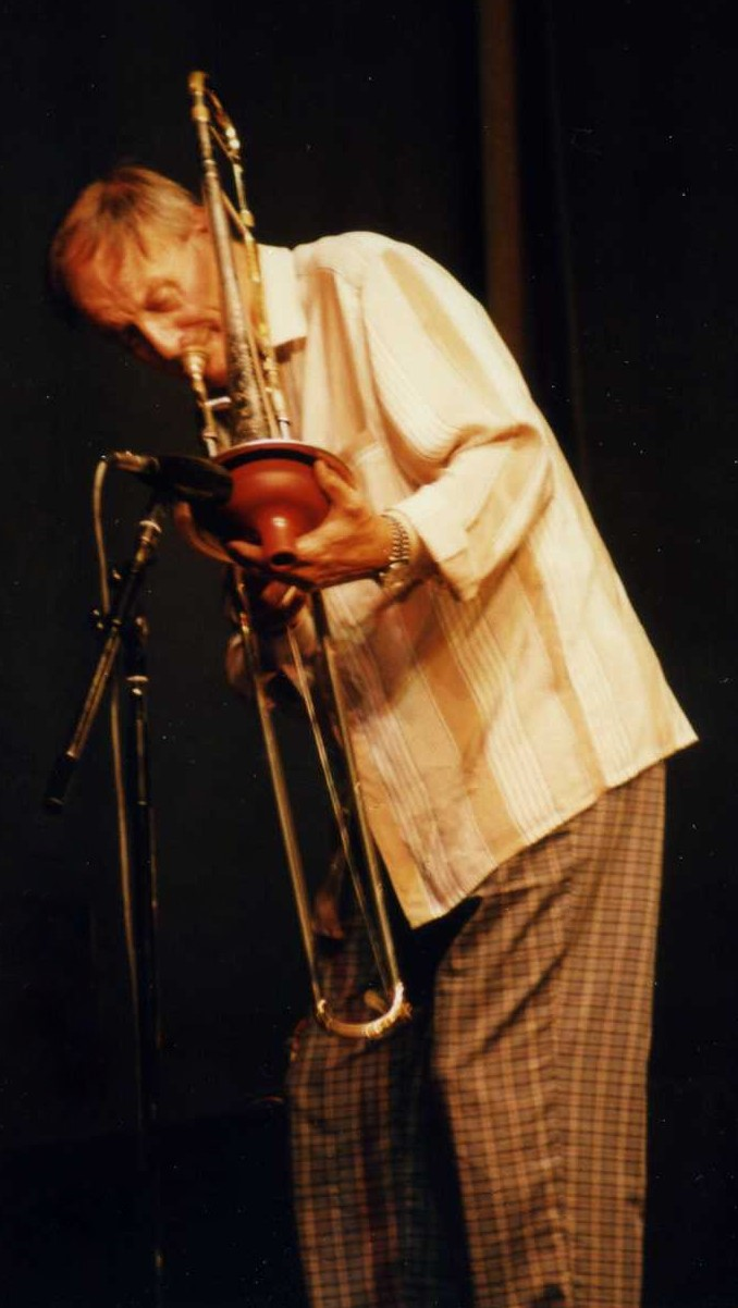 Albert Mangelsdorff Münster 1987